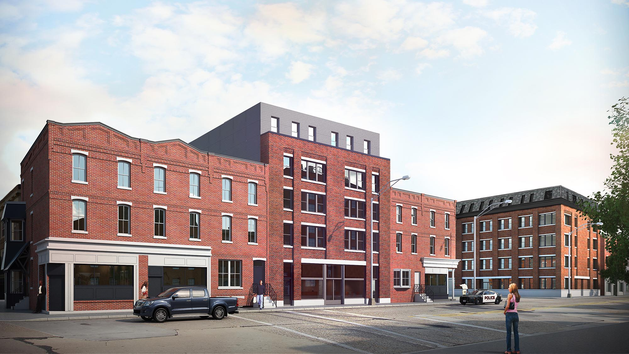 Cooper Village